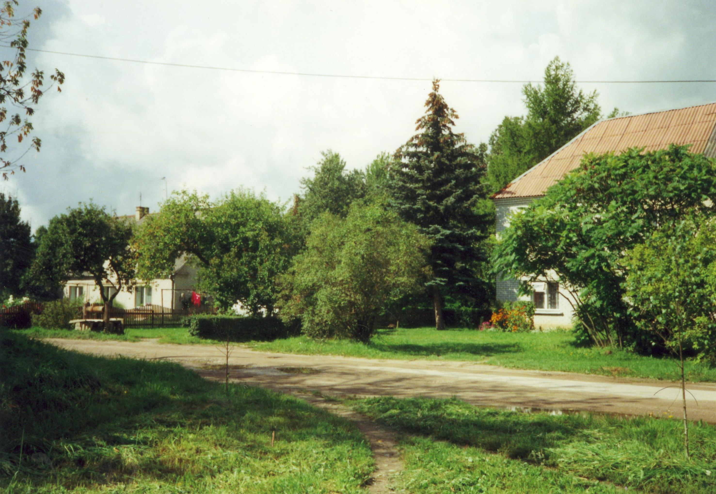 Jonavos miškų ūkio gyvenvietė, 1996 m.